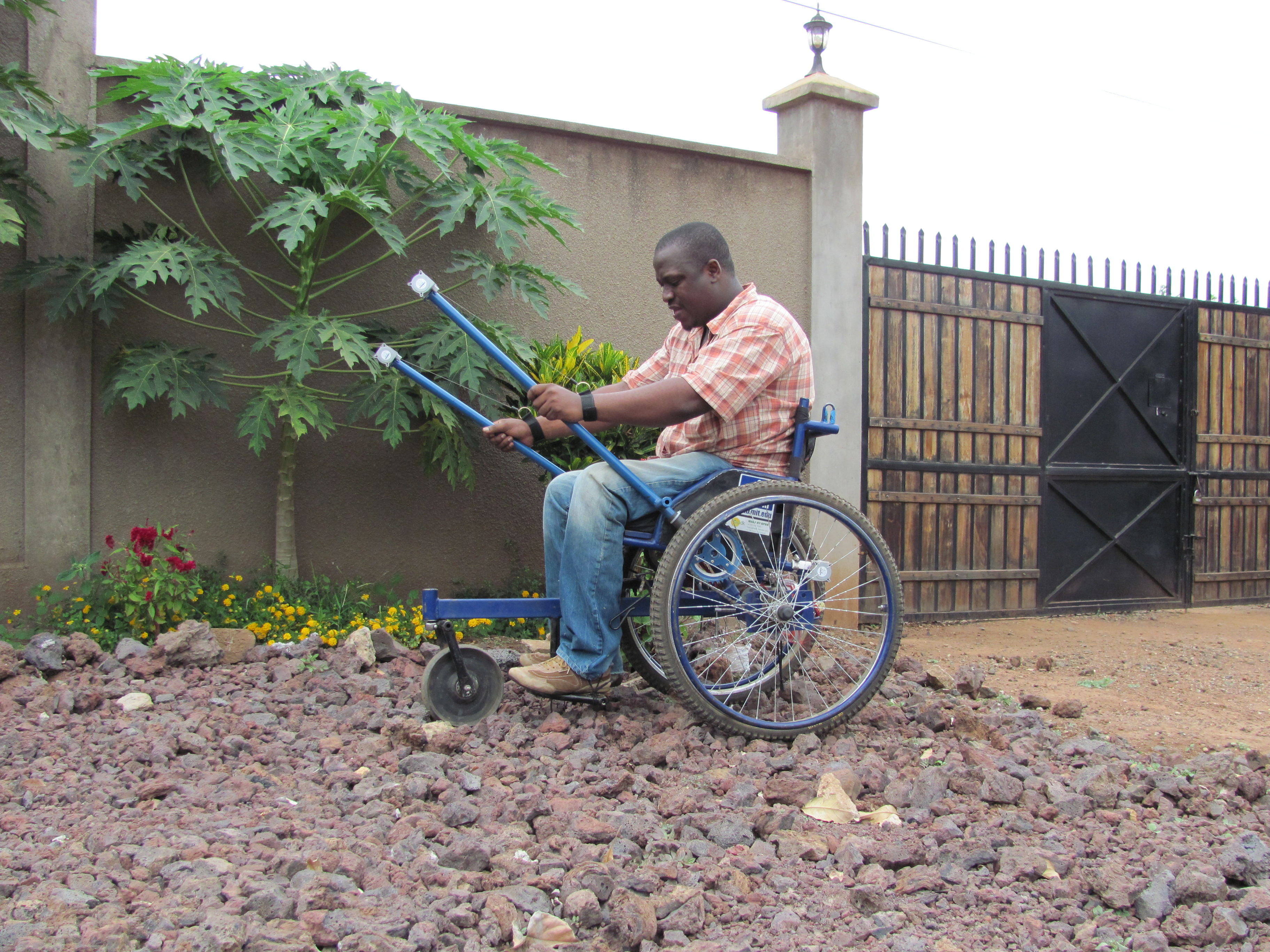 A Leveraged Freedom Chair (LFC) designed at MIT Mobility Lab, being tested in Kenya. The LFC uses levers to help users navigate uneven terrain that is common in developing parts of the world.